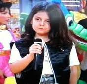 nuno-roque-during-live-show-1995